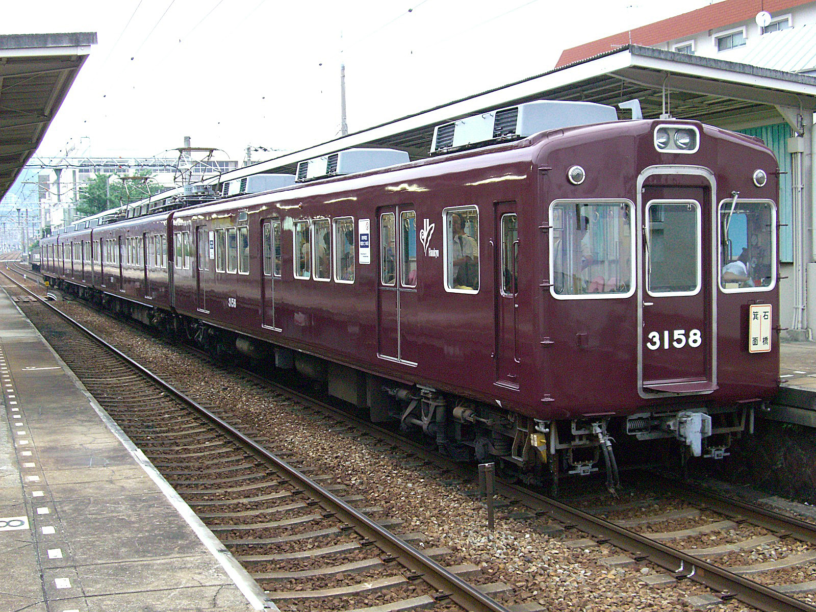 Hankyu Railway 3100 series EMU set 3158 at Makiochi Station in Osaka Prefecture, Japan